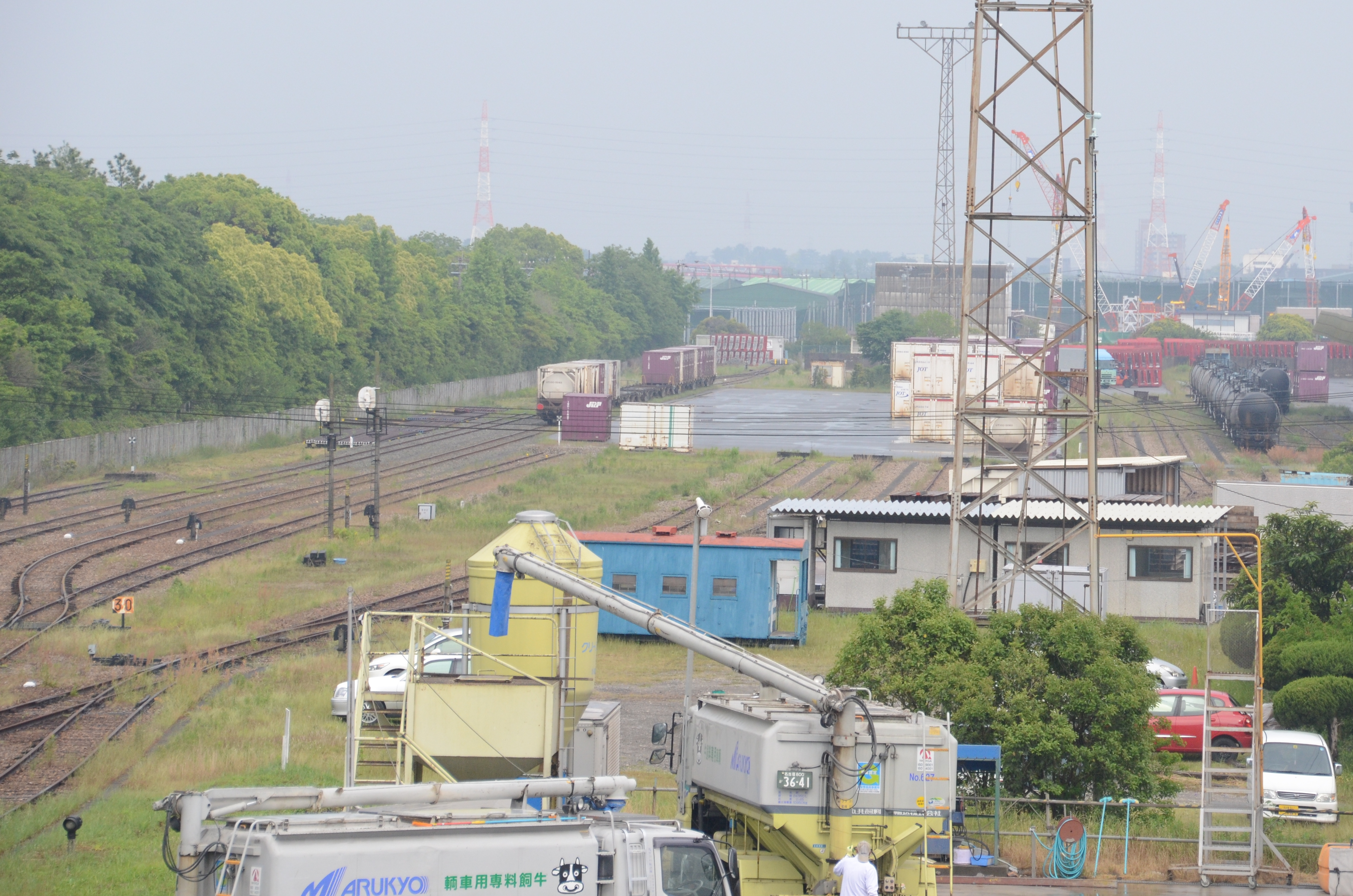 Kinuura Rinkai Railway Handafutō freight terminal